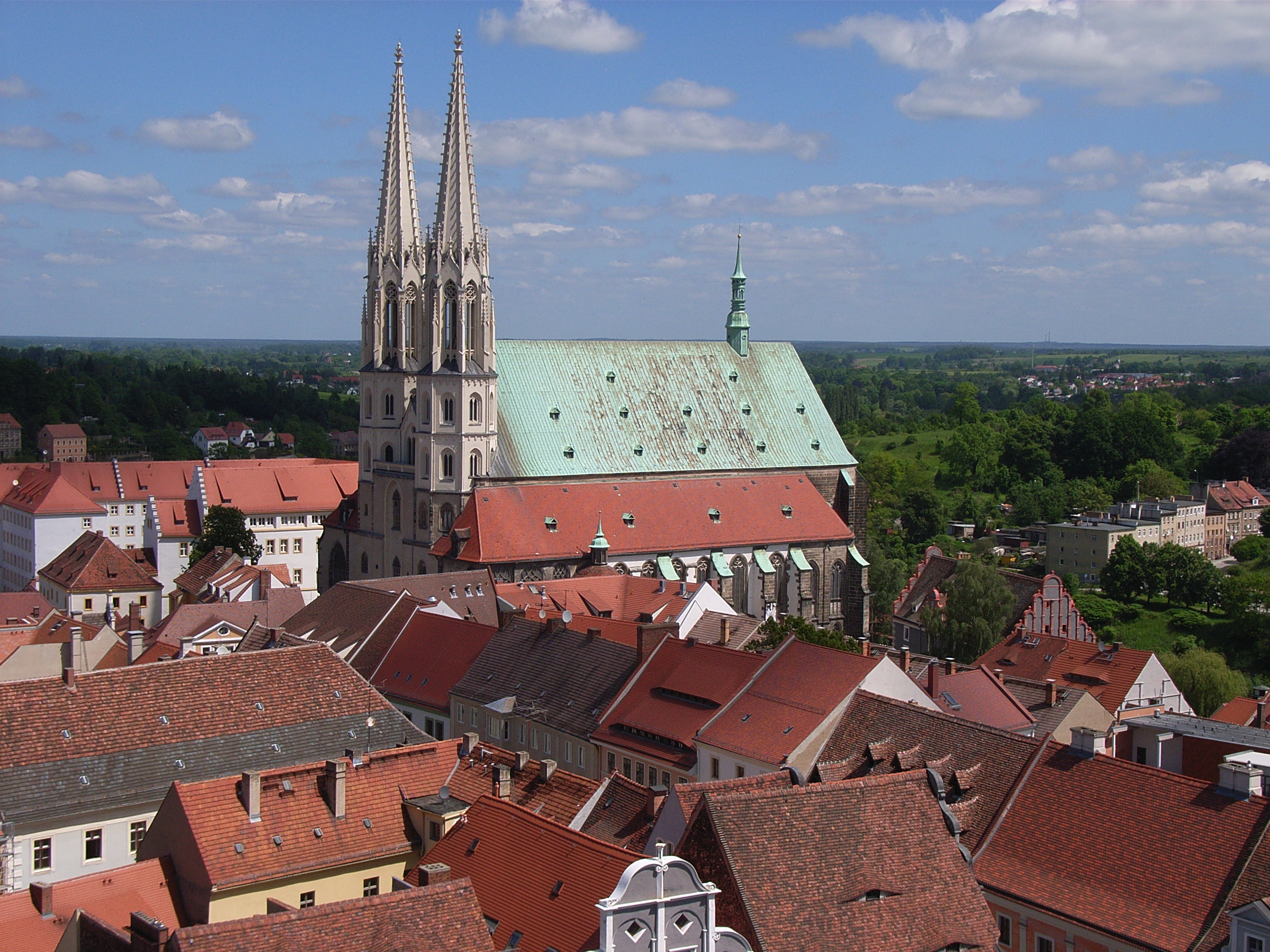 View from the city hall tower of the church St. Peter and Paul